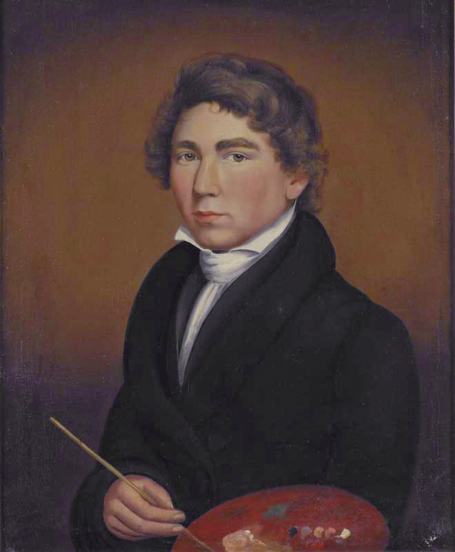 The artist as a young man oil on canvas 79.1 x 68.4 cm 1825